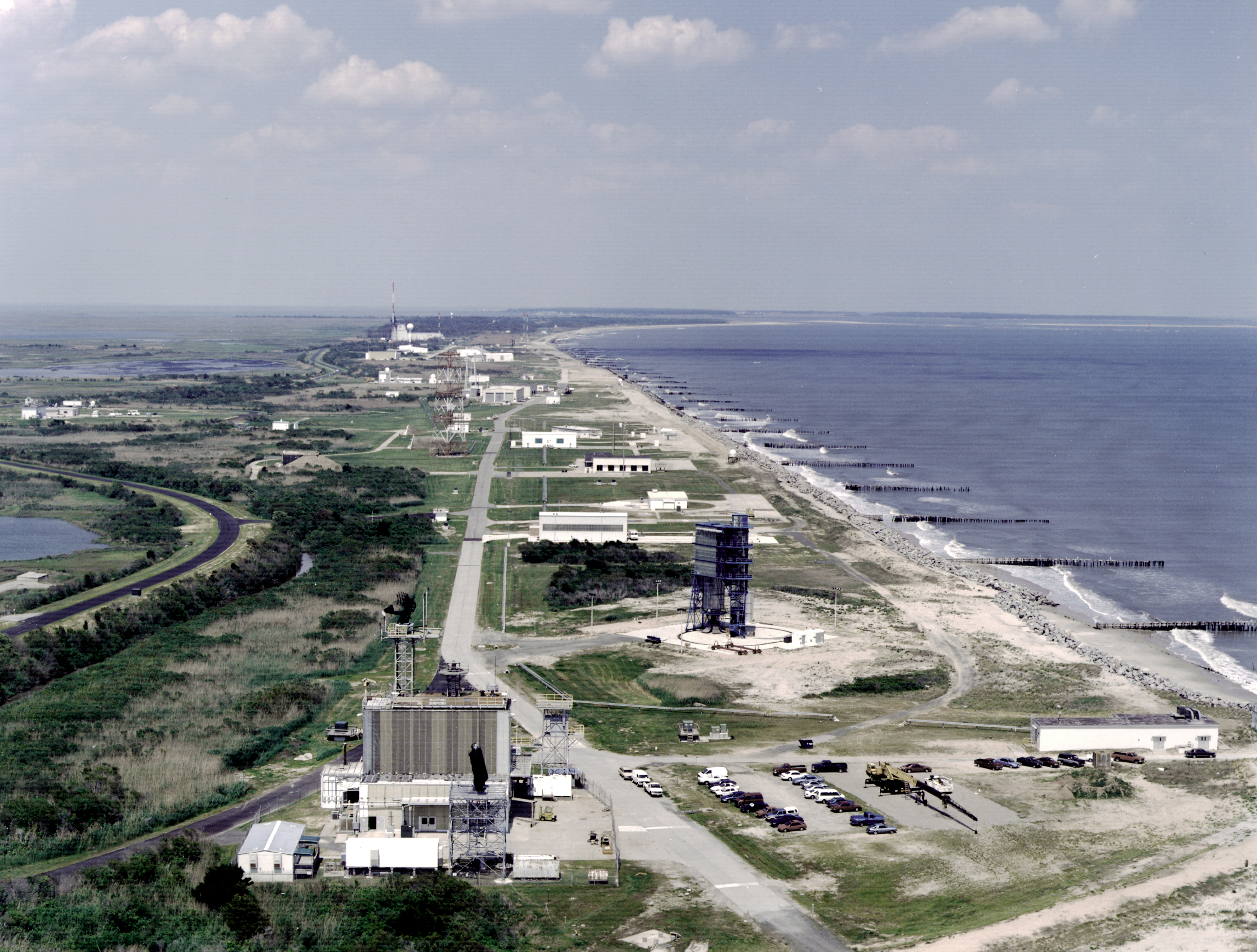 Located on Virginia's Eastern Shore, the Wallops Island Flight Facility shown in this aerial view began as an auxiliary flight research station associated with the Langley Aeronautical Laboratory in 1945. Its remote barrier-island location on the Atlantic coast made it ideal for testing aircraft models and launching small rockets. As the space program evolved, it became one of the agency's mainstays for launching sounding rockets carrying scientific experiments. In the 1980s, however, a proposal emerged to close Wallops as a way of reducing NASA's operating costs. Instead, NASA managers decided to incorporate the facility into the Goddard Space Flight Center because the latter already was closely linked with the facility because Goddard had a sounding rocket division that relied on Wallops for launch, range, tracking and data support. In 1982, Wallops Island Station became the Wallops Island Flight Facility managed under the "Suborbital Projects and Operations" directorate at Goddard.